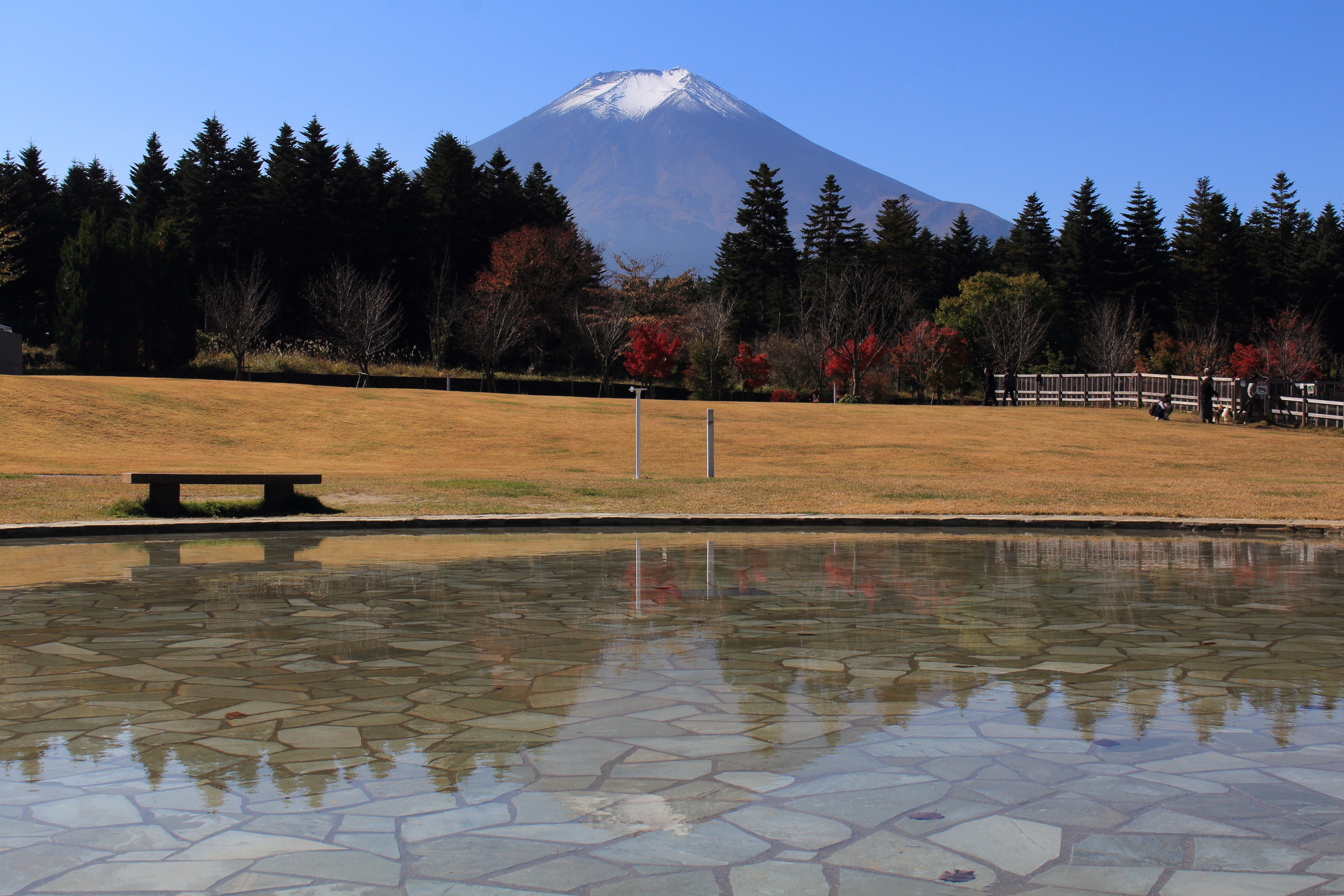 Mount Fuji from Radar Dome Museum in Fujiyoshida, yamanashi prefecture, Japan.